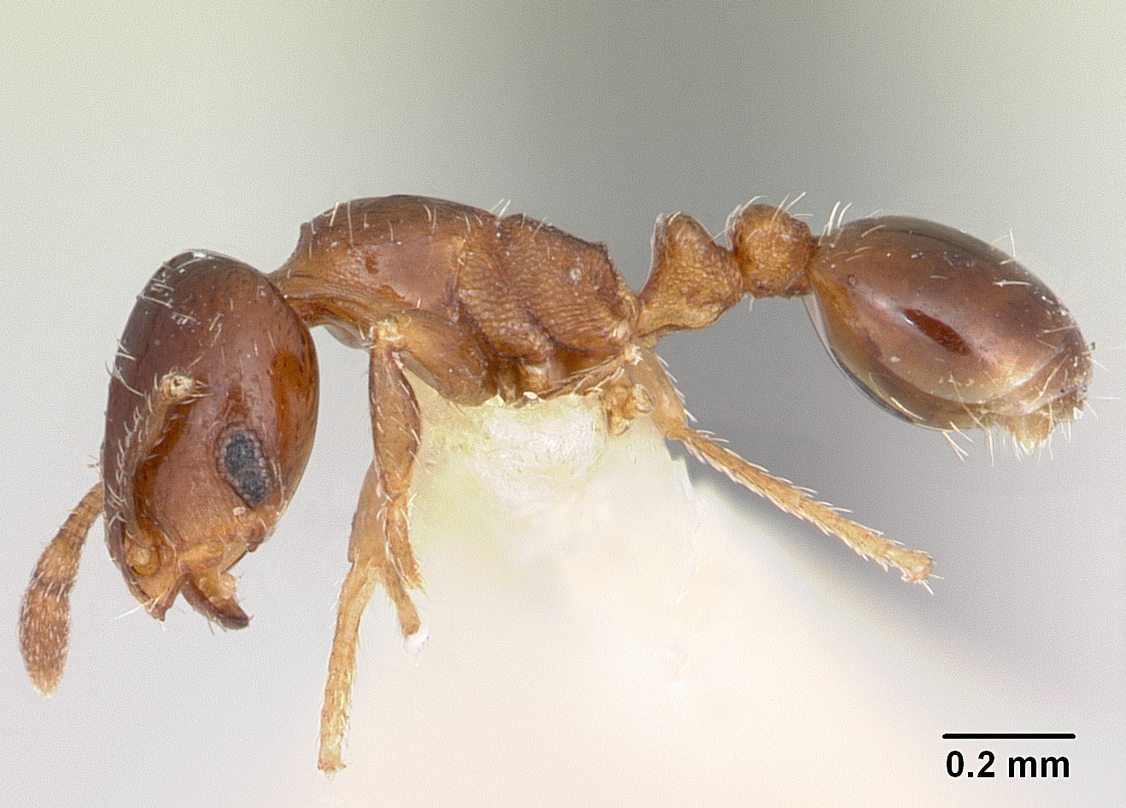 Profile view of ant Solenopsis photophila specimen casent0103211.